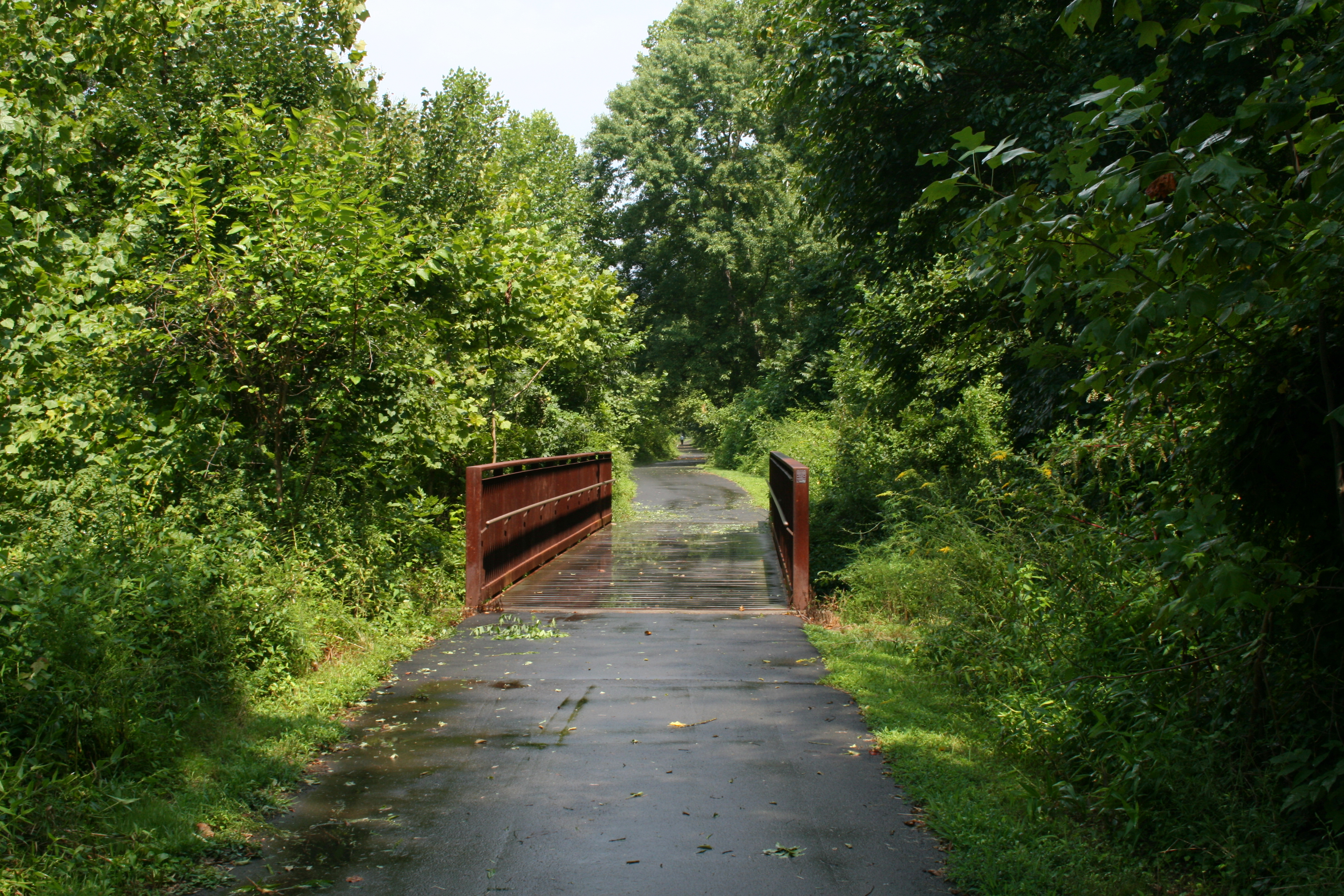 Trail running along Ellerbe Creek after the rain in Durham, North Carolina.